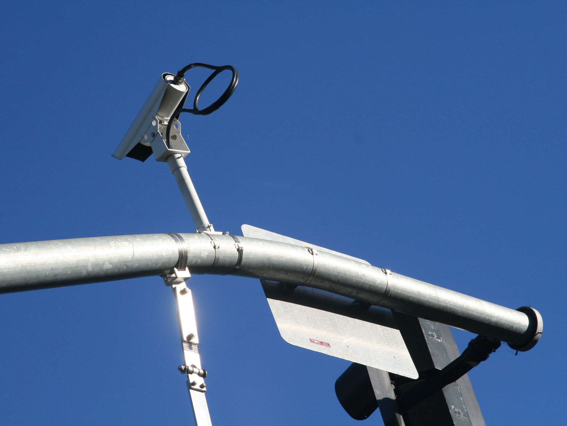 See more: Surveillance Society Not Choking on Data Exhaust Smart cities bristling with HD cameras and sensors capture huge volumes of data exhaust, but most of that information is thrown away. As the Internet of Things advances, cities and transportation systems are becoming "smart" with sensors and HD cameras that capture massive amounts of information. Beyond their intended use, these smart systems also capture a layer of data exhaust that's being largely discarded, but it's only a matter of time until businesses find a way to monetize it according to Todd Matsler of Intel's Intelligent Systems Group.